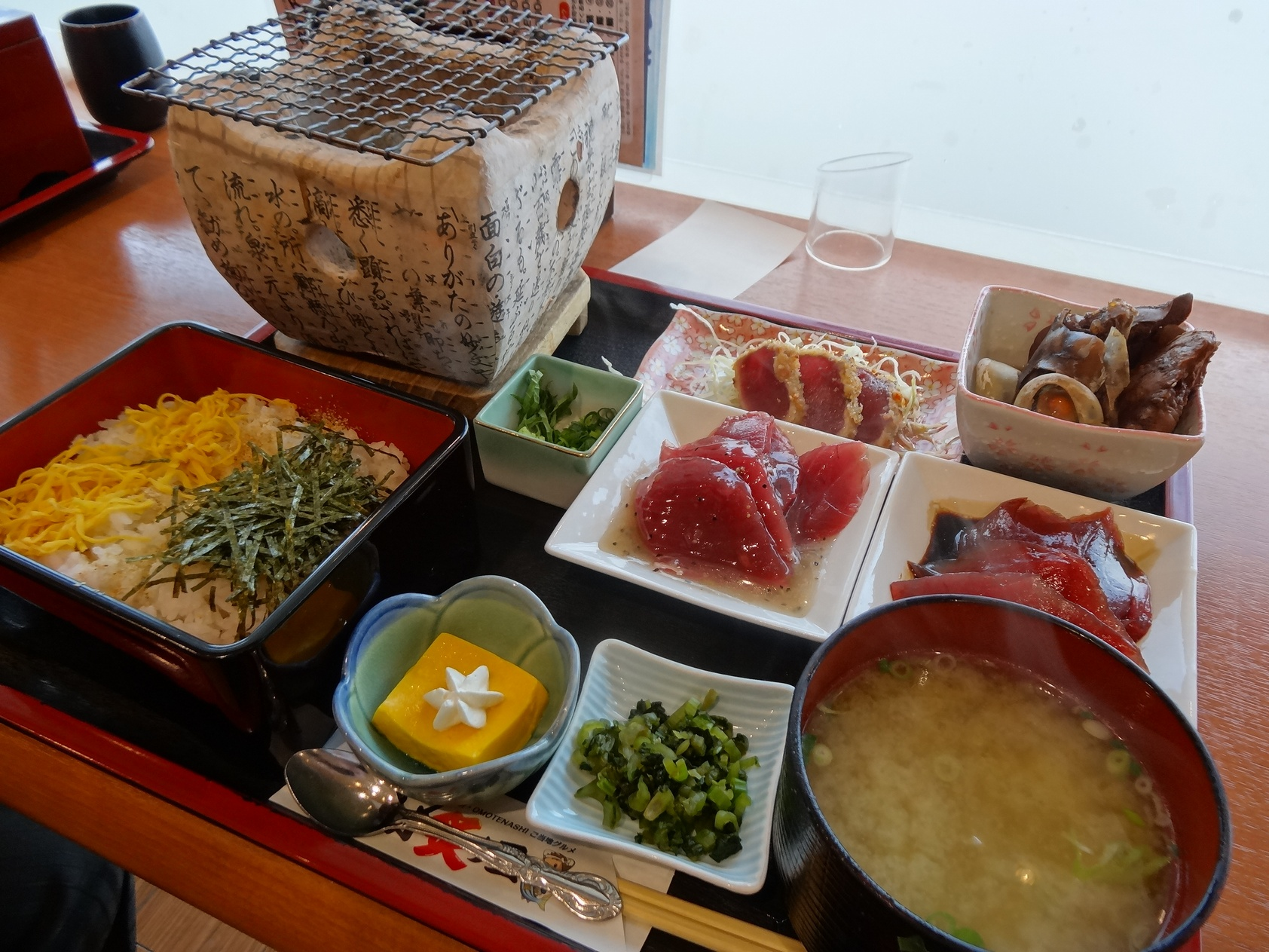 Nichinan Katsuo Aburi-ju (Nichinan City, Miyazaki, Japan)